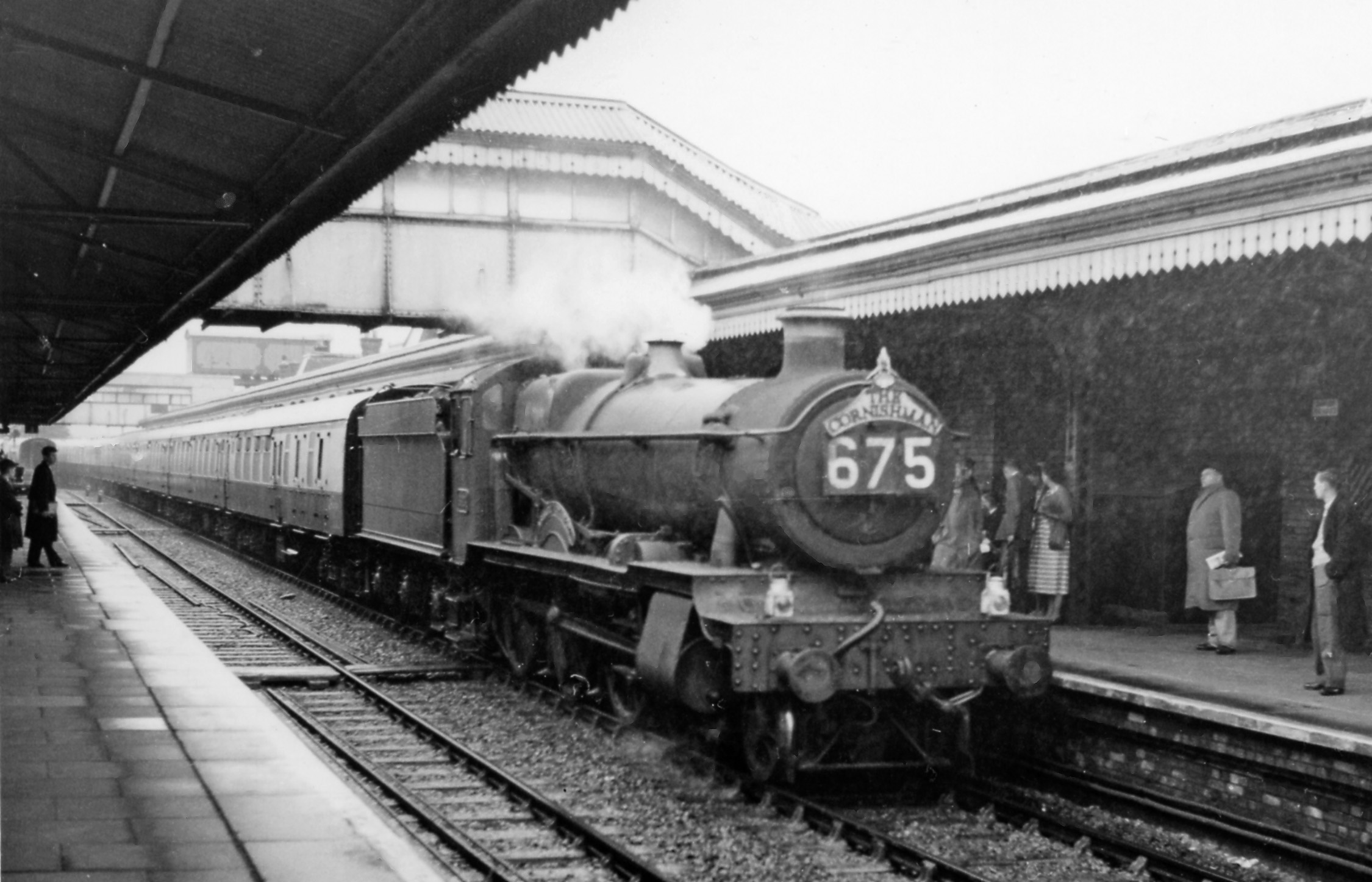 Down 'Cornishman' express at Truro. View eastward, towards Plymouth, Exeter etc.; ex-GW Exeter etc. - Plymouth - Penzance main line. The 'Cornishman' had left Wolverhampton (Low Level) at 09.00 and had run via Birmingham (Snow Hill), Stratford-on-Avon, Cheltenham, Bristol, Taunton, Exeter and Plymouth - where 4-6-0 No. 6824 'Ashley Grange' would have taken over from a 'Castle', for the difficult last 79½ miles to Penzance where it was due at 17.50.